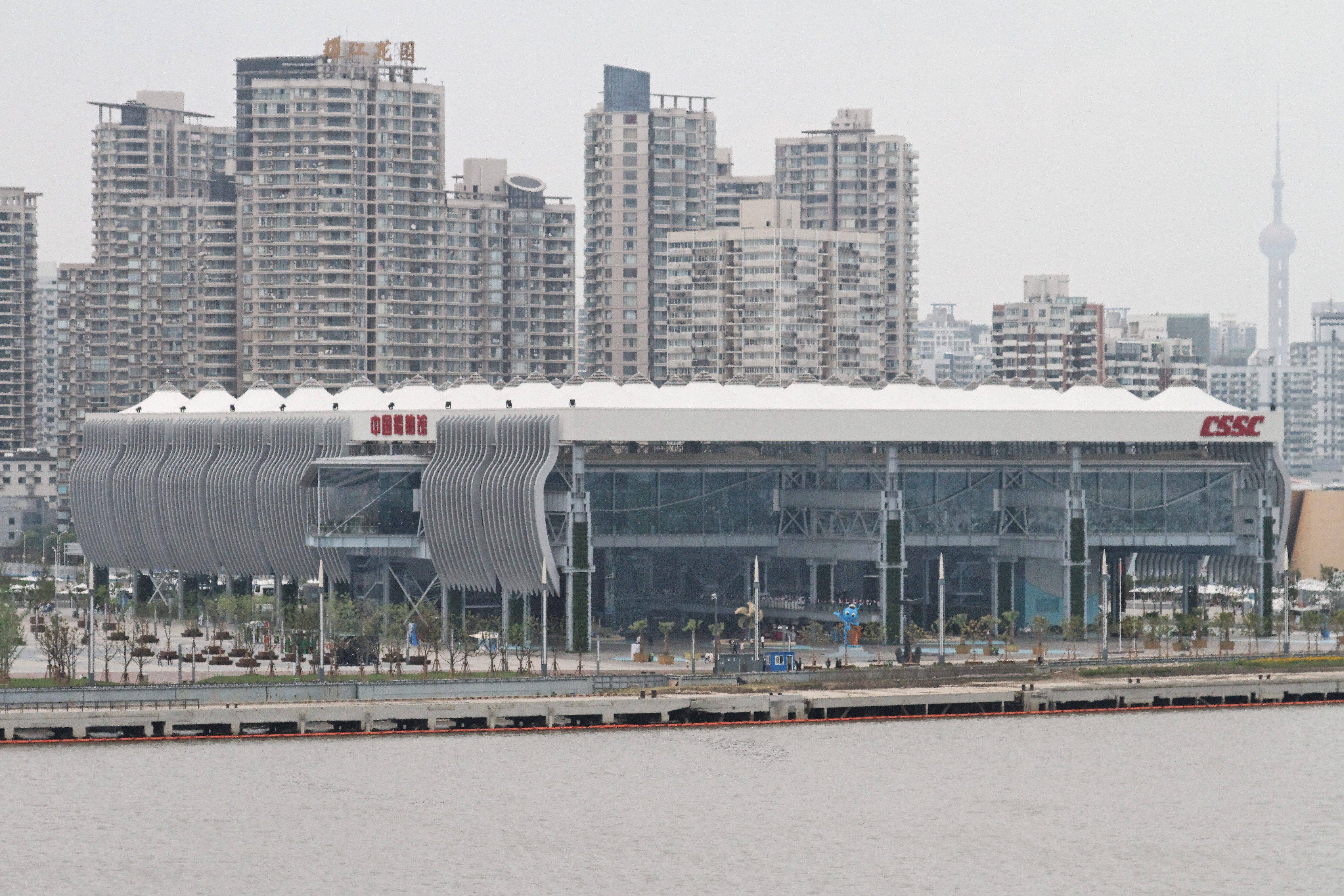 CSSC Pavilion of Expo 2010, seen from Expo Culture Center across the Huangpu river